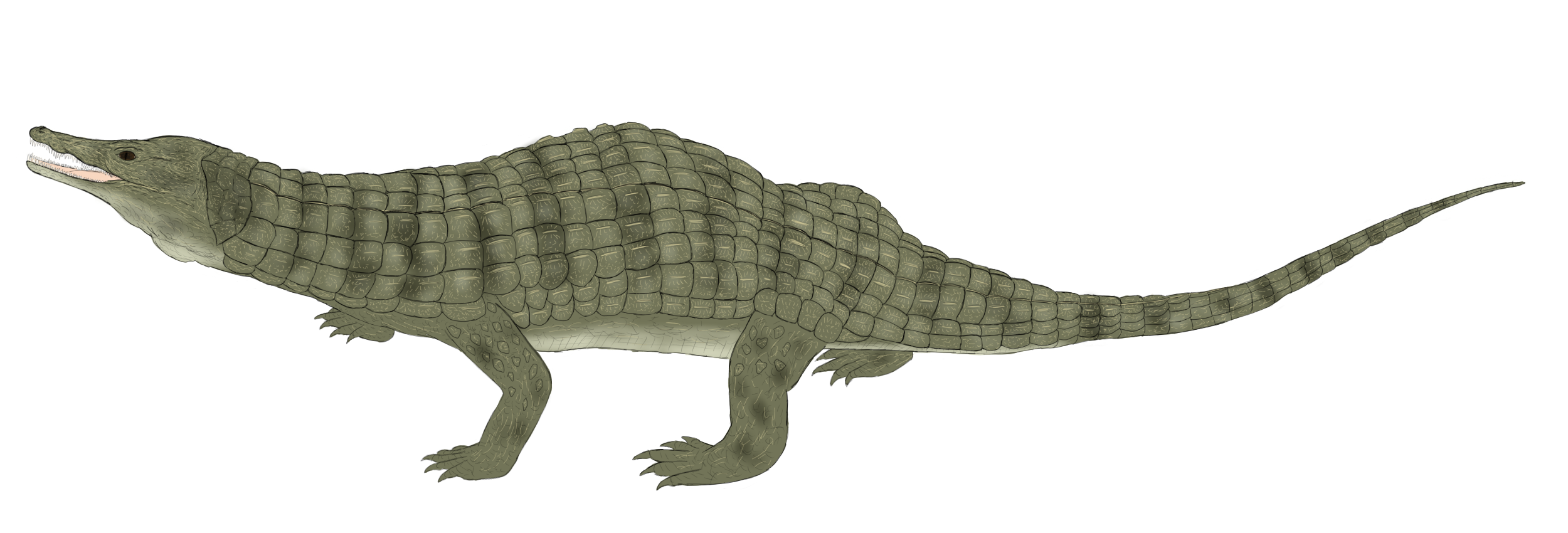 A life restoration of Doswellia kaltenbachi, an extinct species of archosauriform from the Late Triassic of Virginia.